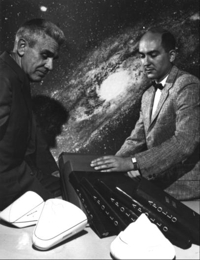 At lower left, E. E. Clark and Carlos de Moraes of the Martin Company display three of a dozen command module configurations considered before the choice of the one to the right. De Moraes' hand rests on volumes containing about 9,000 pages that the company submitted as its Apollo study.